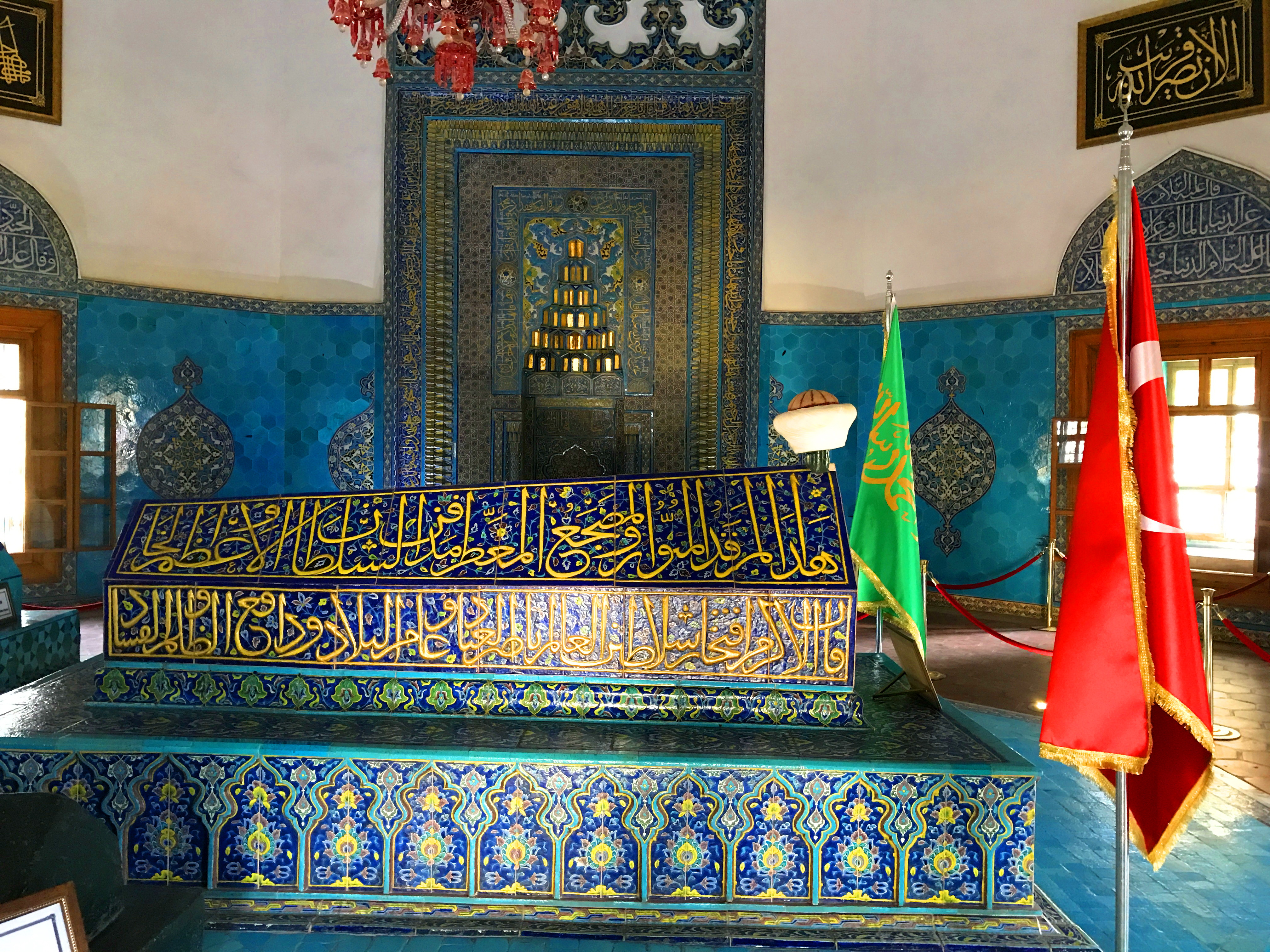 The Green Tomb (Yeşil Türbe) is a mausoleum of the fifth Ottoman Sultan, Mehmed I, in Bursa, Turkey. It was built by Mehmed's son and successor Murad II following the death of the sovereign in 1421. The architect, Hacı Ivaz Pasha designed the tomb and the Yeşil Mosque opposite to it